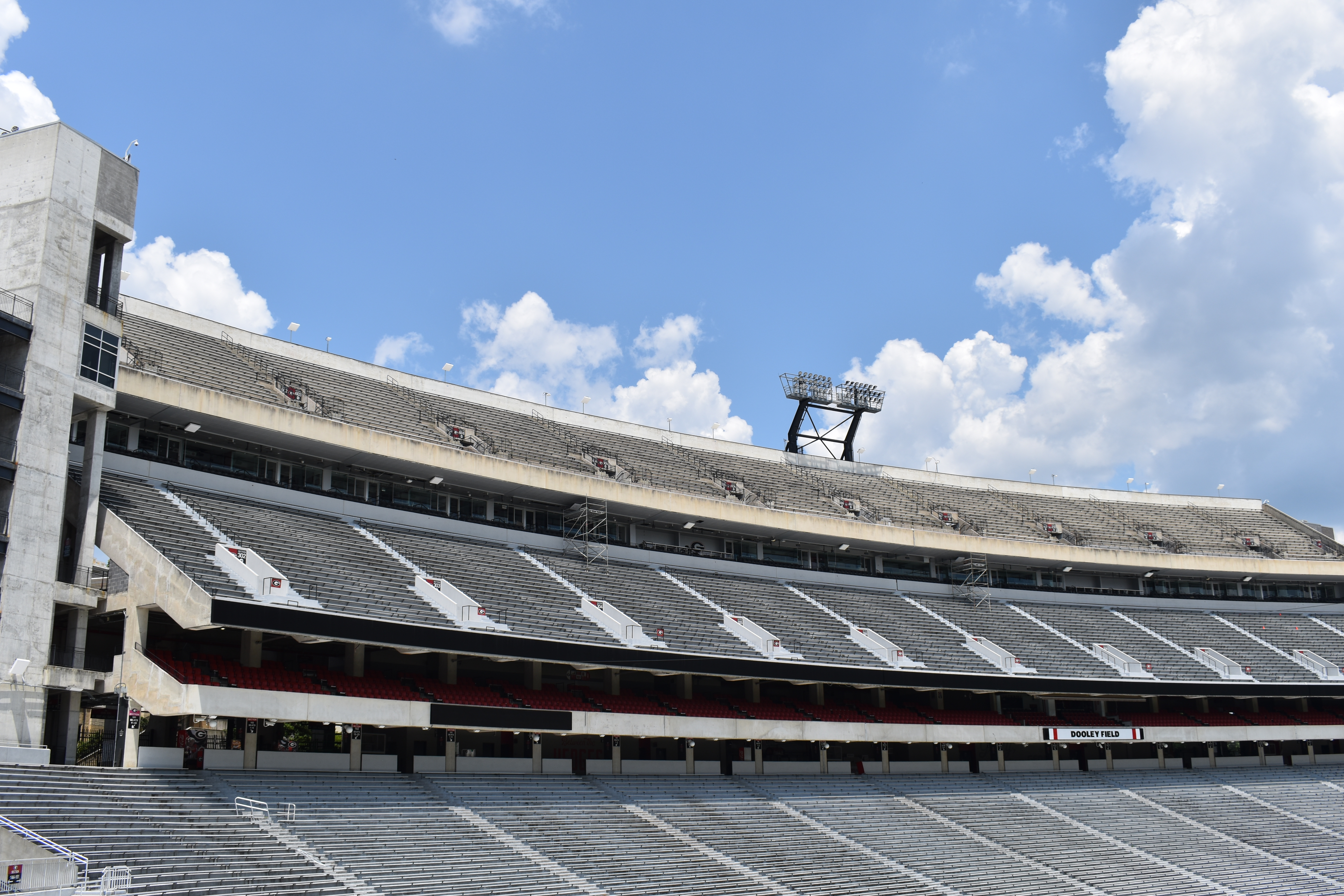 The north side of the stadium seen in July 2020